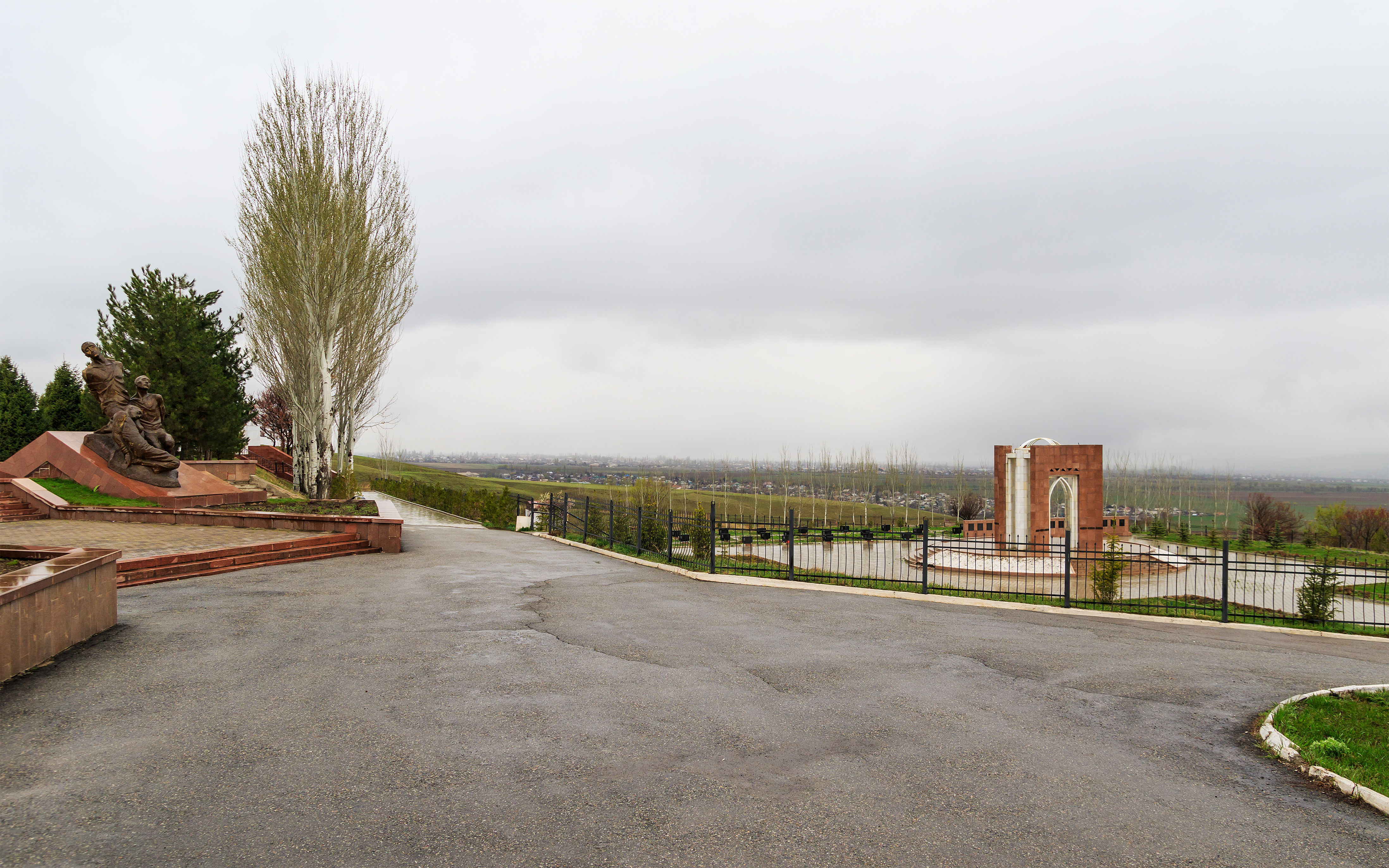 Ata-Beyit Memorial near Bishkek. Chuy Region, Kyrgyzstan